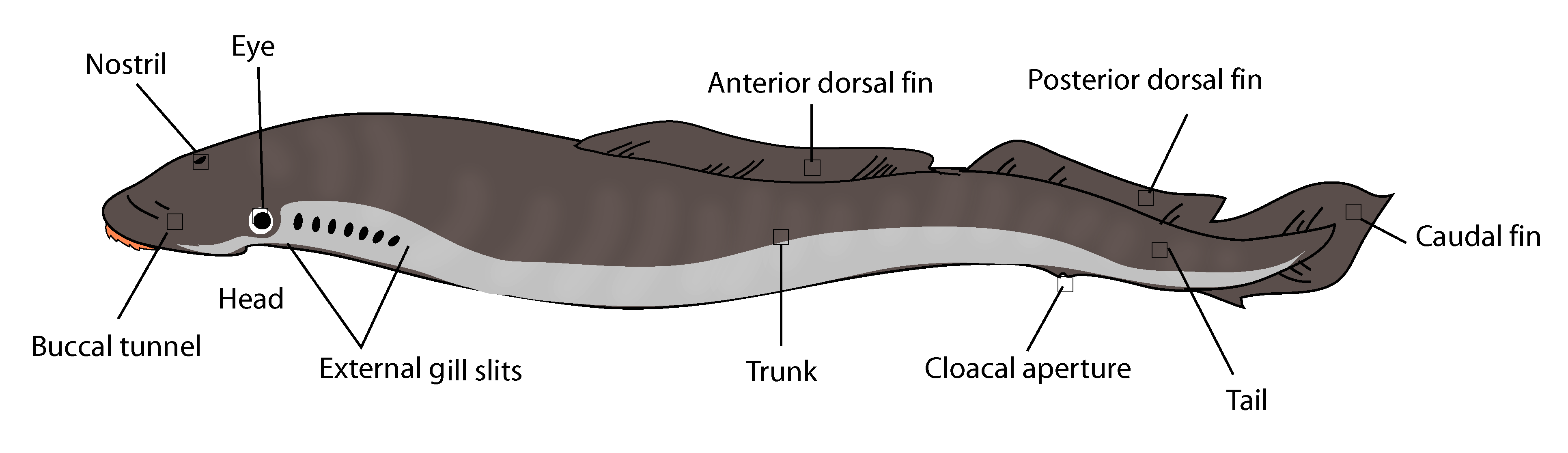 External anatomy of a lamprey (order Petromyzontiformes)